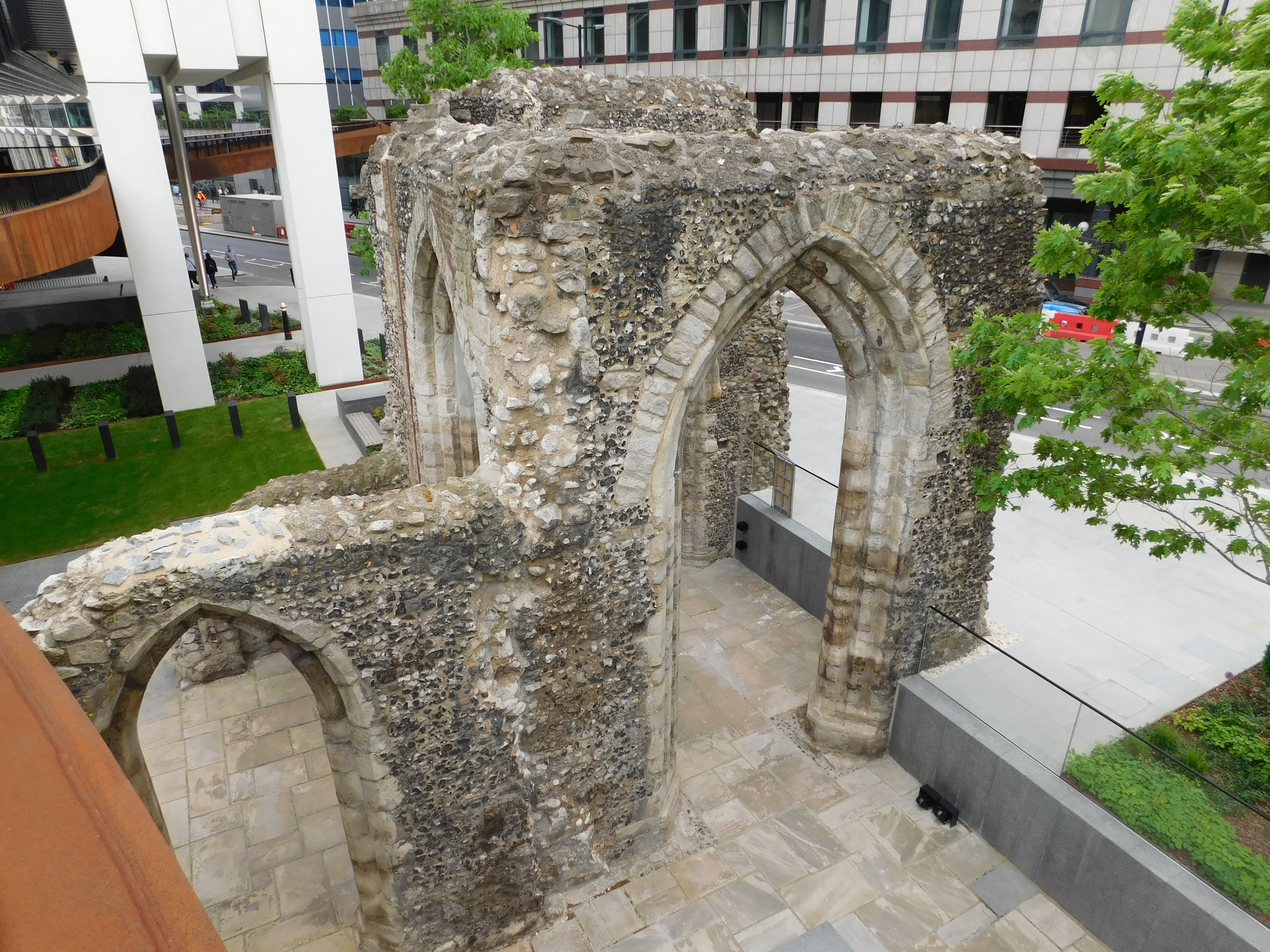 St Alphege London Wall Wikidata has entry Q7592313 with data related to this item.